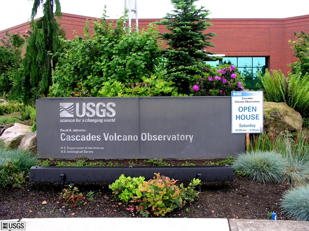 Sign for Cascades Volcano Observatory (Vancouver, Washington State, USA) on Open day 2005.